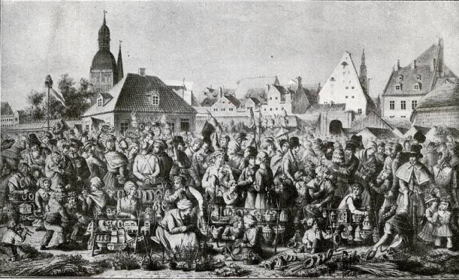 Herbal Eve at the Daugavmalas in 18th century.